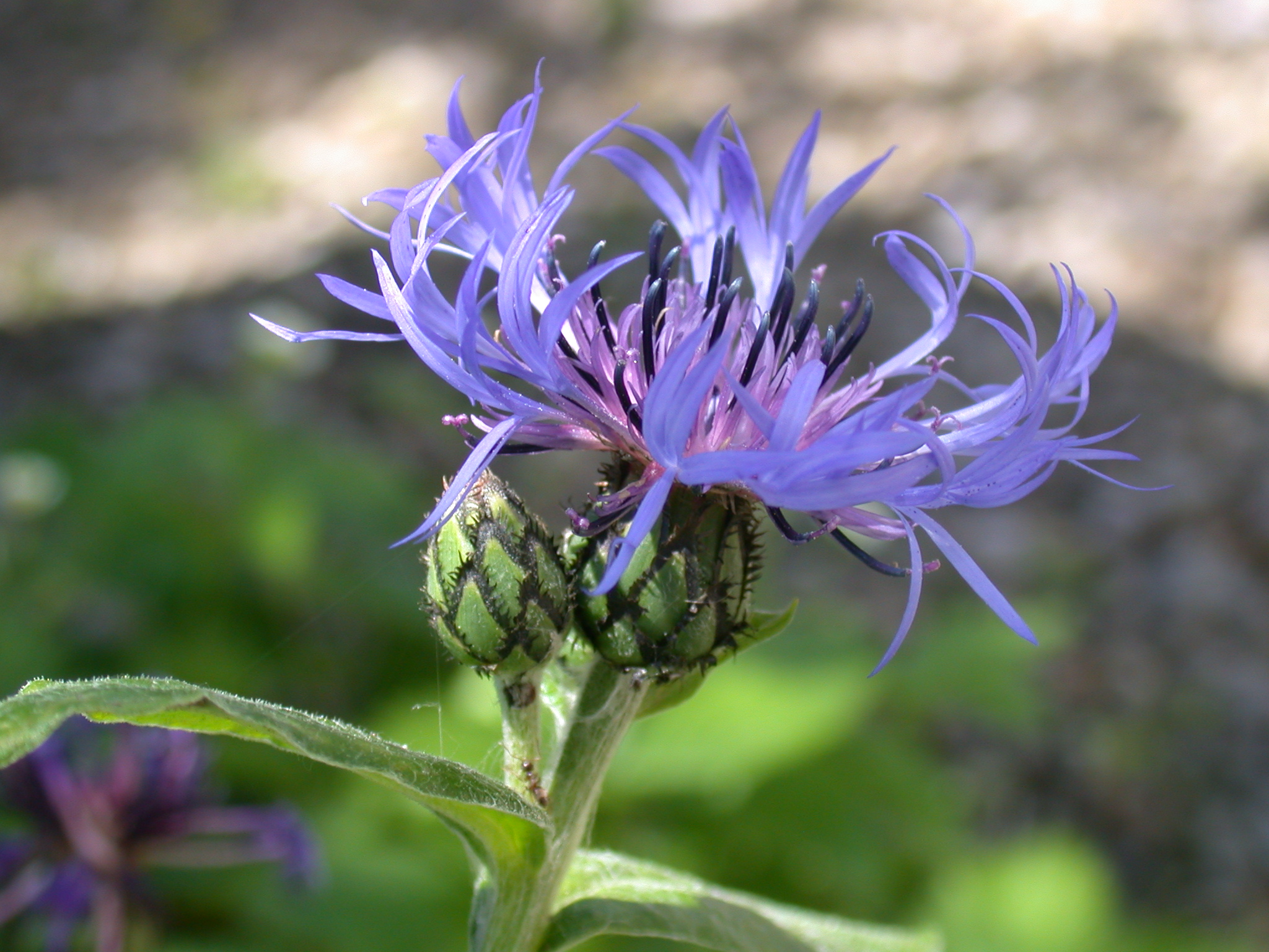 Centaurea montana (Asteraceae); Suldtal, Canton of Bern, Switzerland